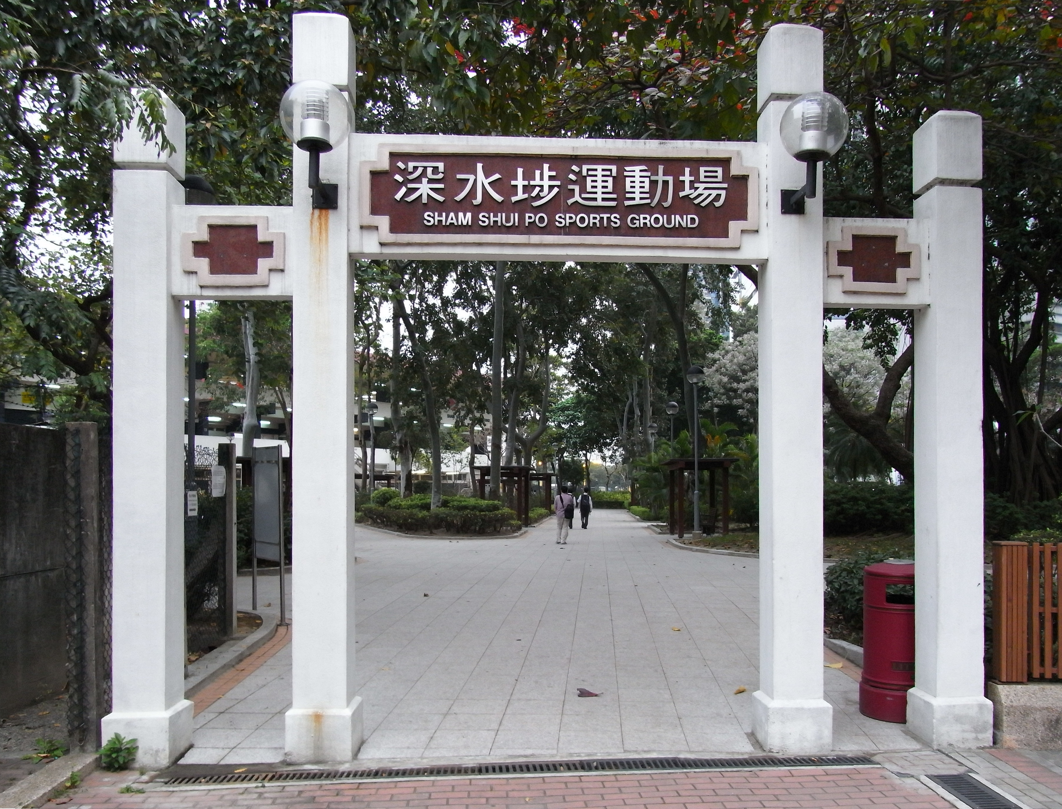 長沙灣徑 Cheung Sha Wan Path Sitting-out Area sign 深水埗運動場 Sham Shui Po Sports Ground, Hong Kong